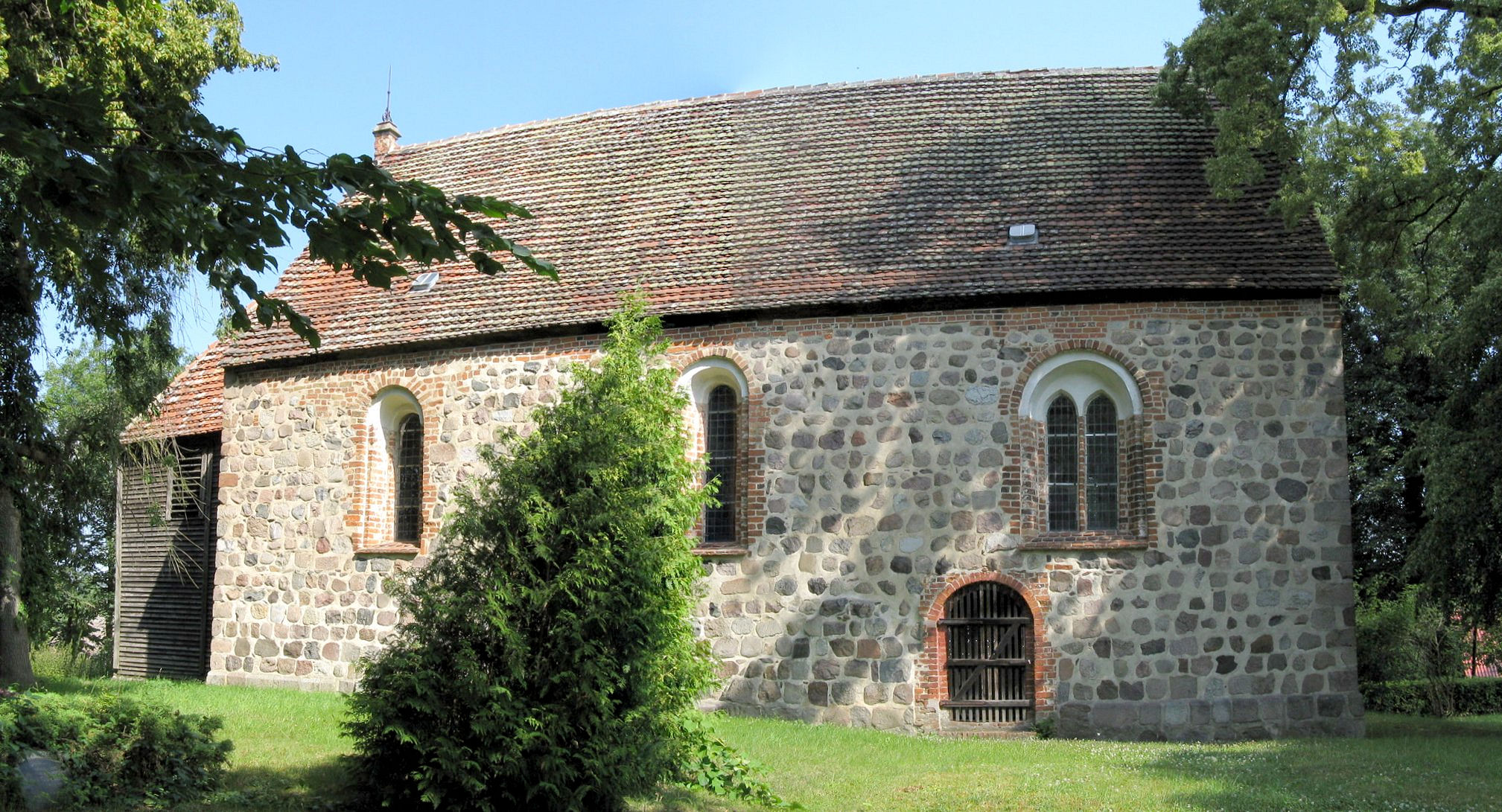 Church in Groß Upahl, disctrict Güstrow, Mecklenburg-Vorpommern, Germany